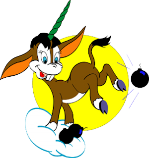 Emblem of the 342d Bombardment Squadron (World War II)